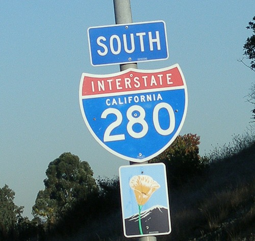 An example of how a California poppy sign is used by Caltrans to mark scenic routes in the state of California. This particular example is posted on Interstate 280 southbound, just south of the Farm Hill Boulevard interchange.